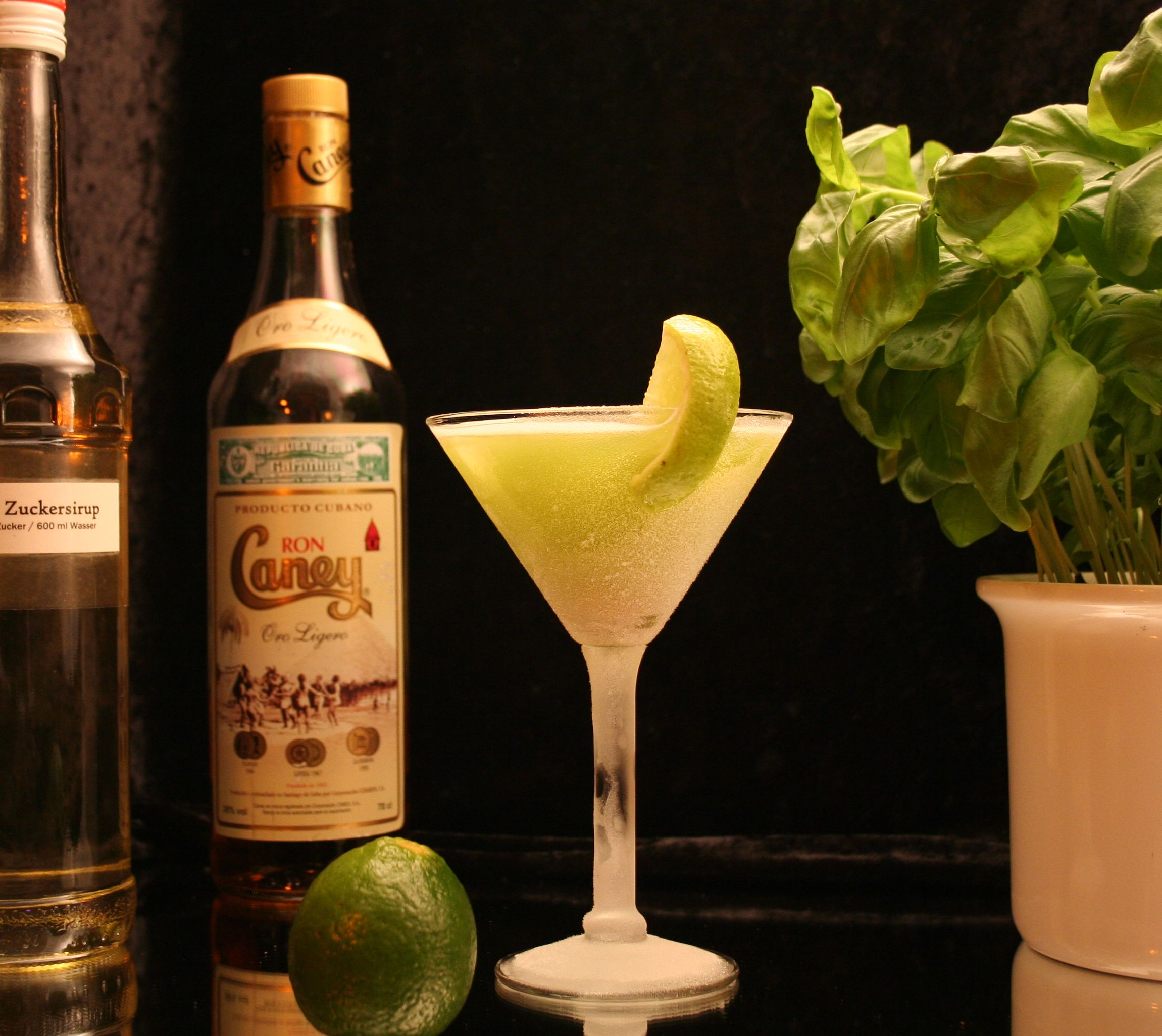 Basil Daiquiri